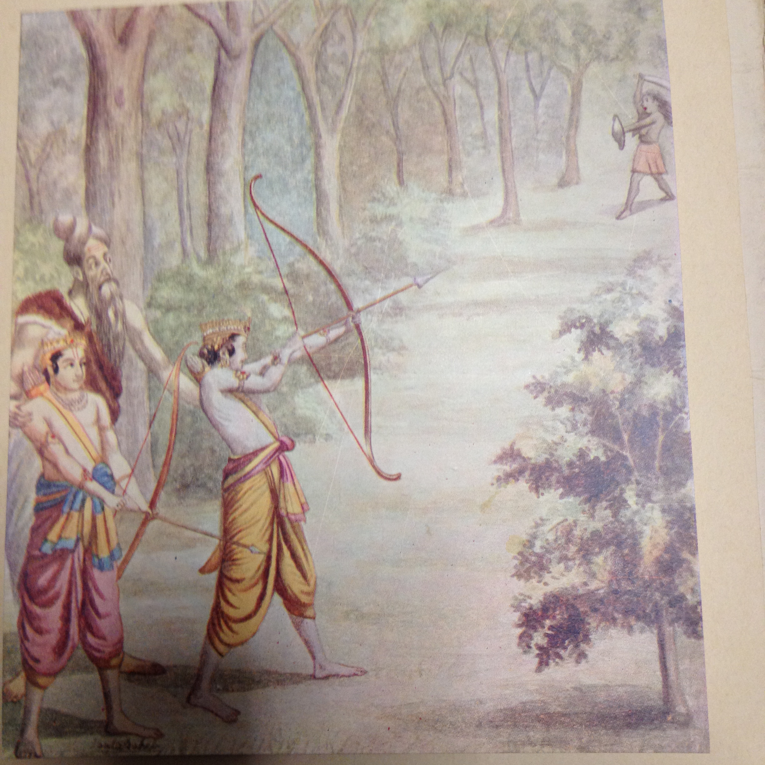 Rama and Lakshman studied military science and other subjects under the famous guru, sage Viswamitra. After completion of their studies, they were returning to Ayodhya. While passing through forest they came across a demon called Tataka who was causing perpetual nuisance to sages in their conducting of religious duties and sacrifices. Viswamitra told Rama to kill Tataka. Rama hesitated to kill a woman. The guru convinced him that social menace in any form or gender was to be controlled and it was dharma (duty) of a Kshatriya to eradicate evil. With one arrow Rama disposed off Tataka.